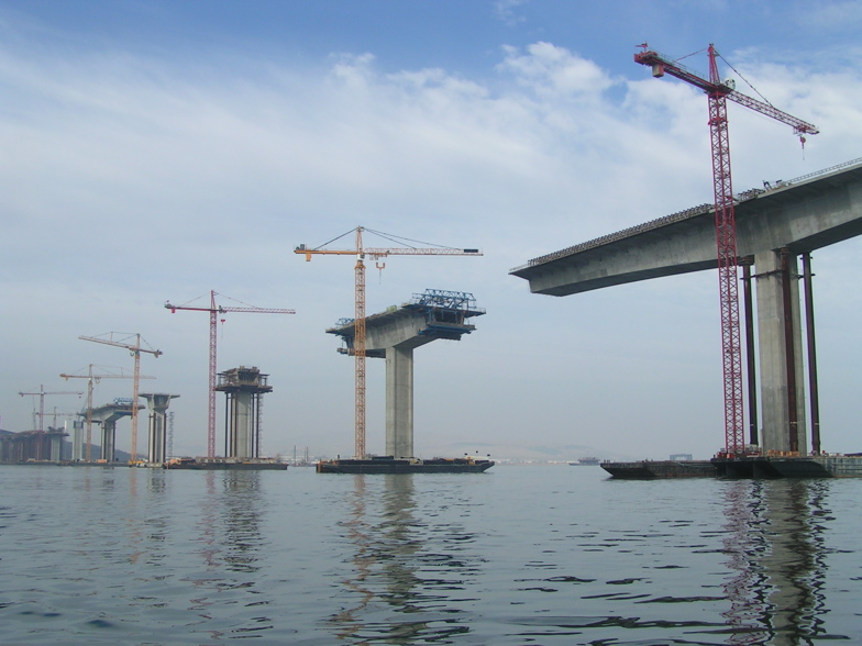 I took this photo today with my own camera and am releasing it under the GNU Free Documentation License (GFDL). This is of the current progress of the Benicia-Martinez bridge and it seems that it would make a nice contribution to the article.